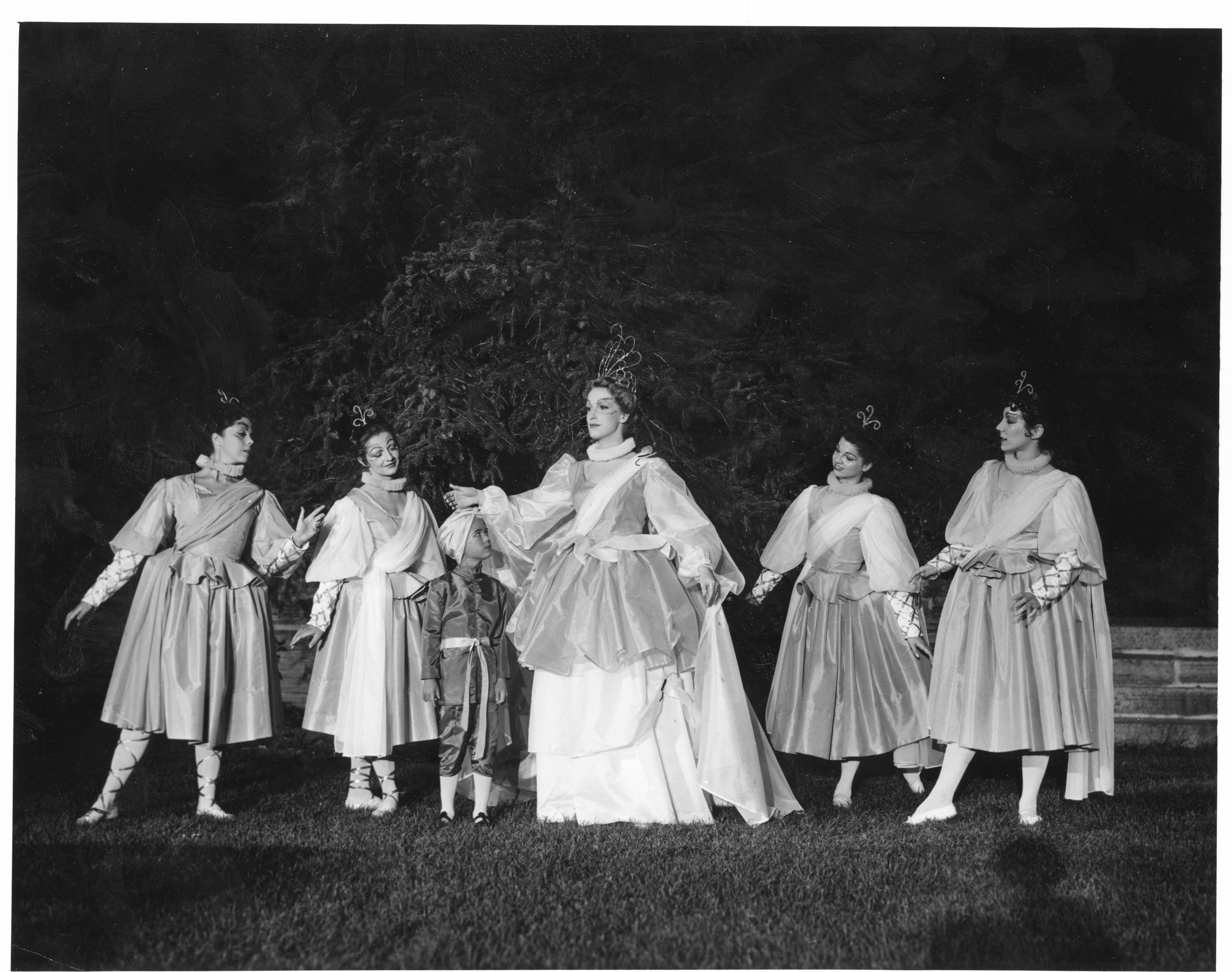 A Midsummer Night's Dream, Colorado Shakespeare Festival, 1959, Mary Rippon Outdoor Theatre